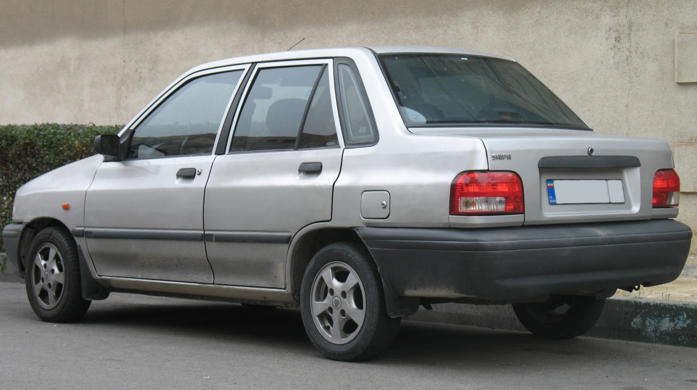 Saipa Pride 131 SE with optional 13" alloy wheels - the small rear body window and plastic side moldings are removed in higher model years.